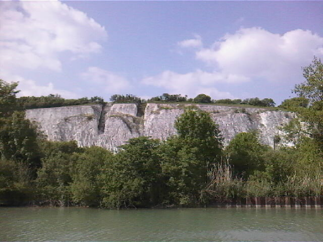 Deep chalk deposits at the south of he Montagne de Reims, between Mareuil-sur-Ay and Bisseuil (but at the Bisseuil side of the commune border). View from the canal latéral à la Marne.